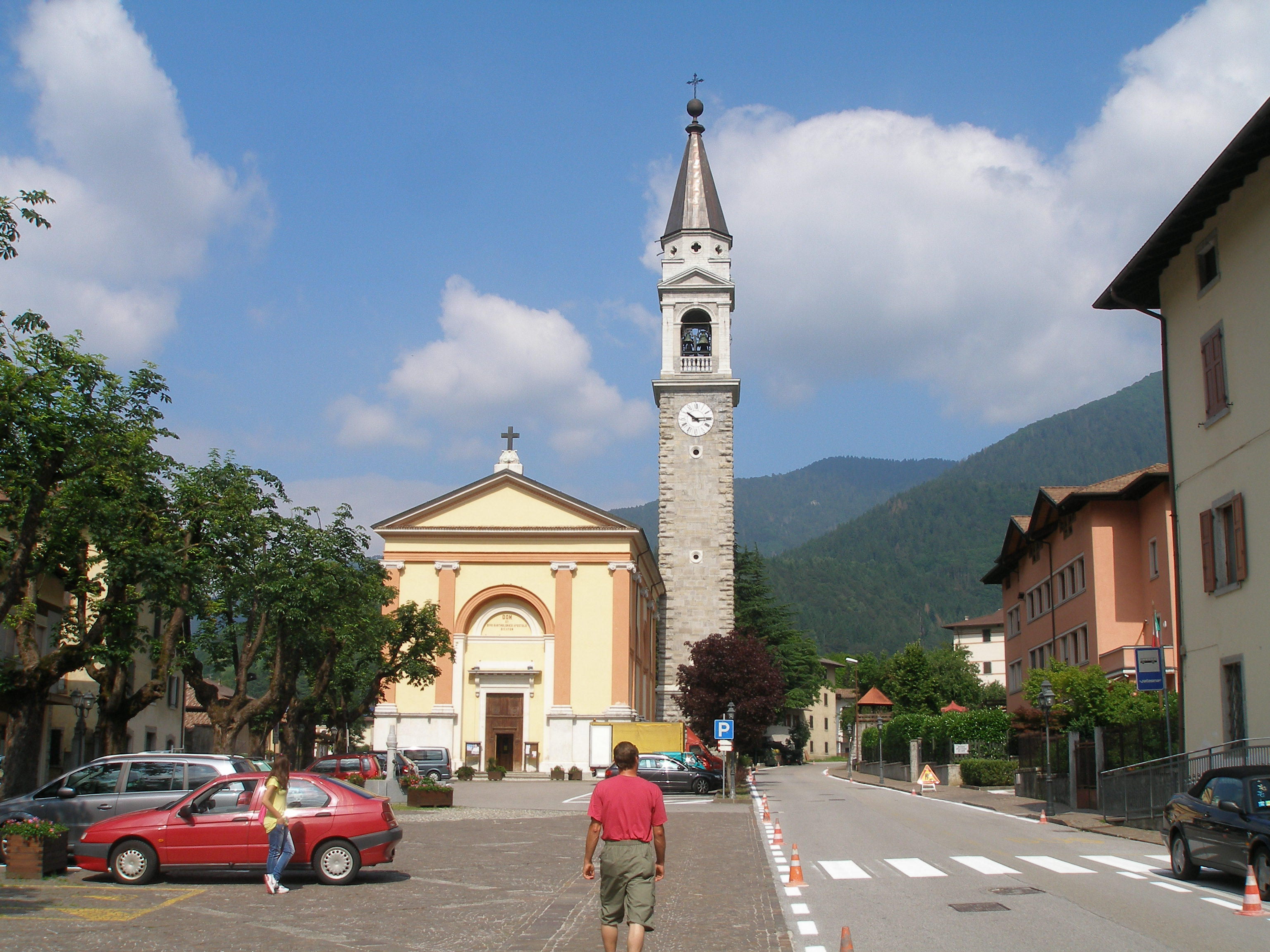 Tiarno di Sotto - the church on the square